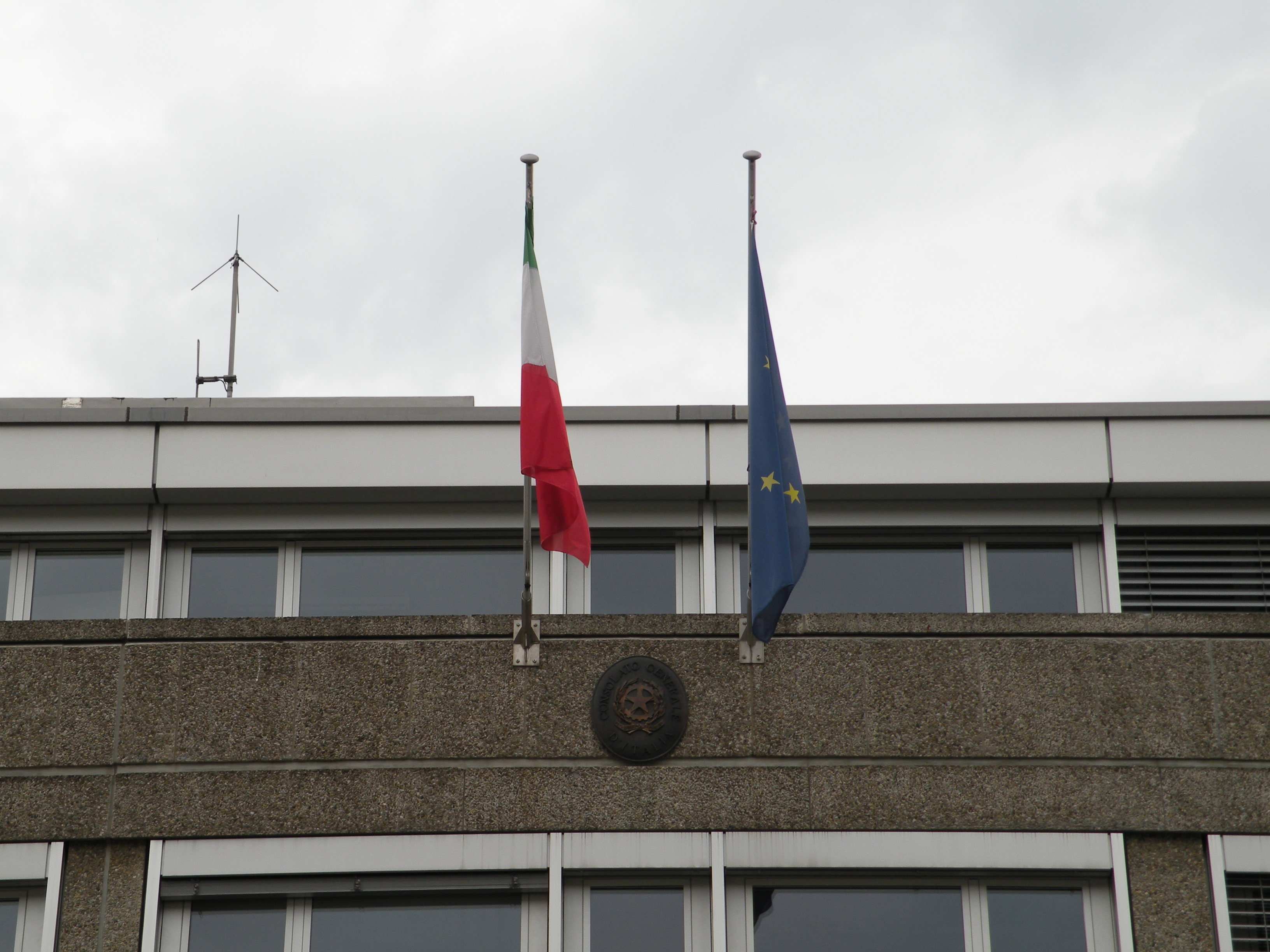 Italian general consulate in Lausanne.